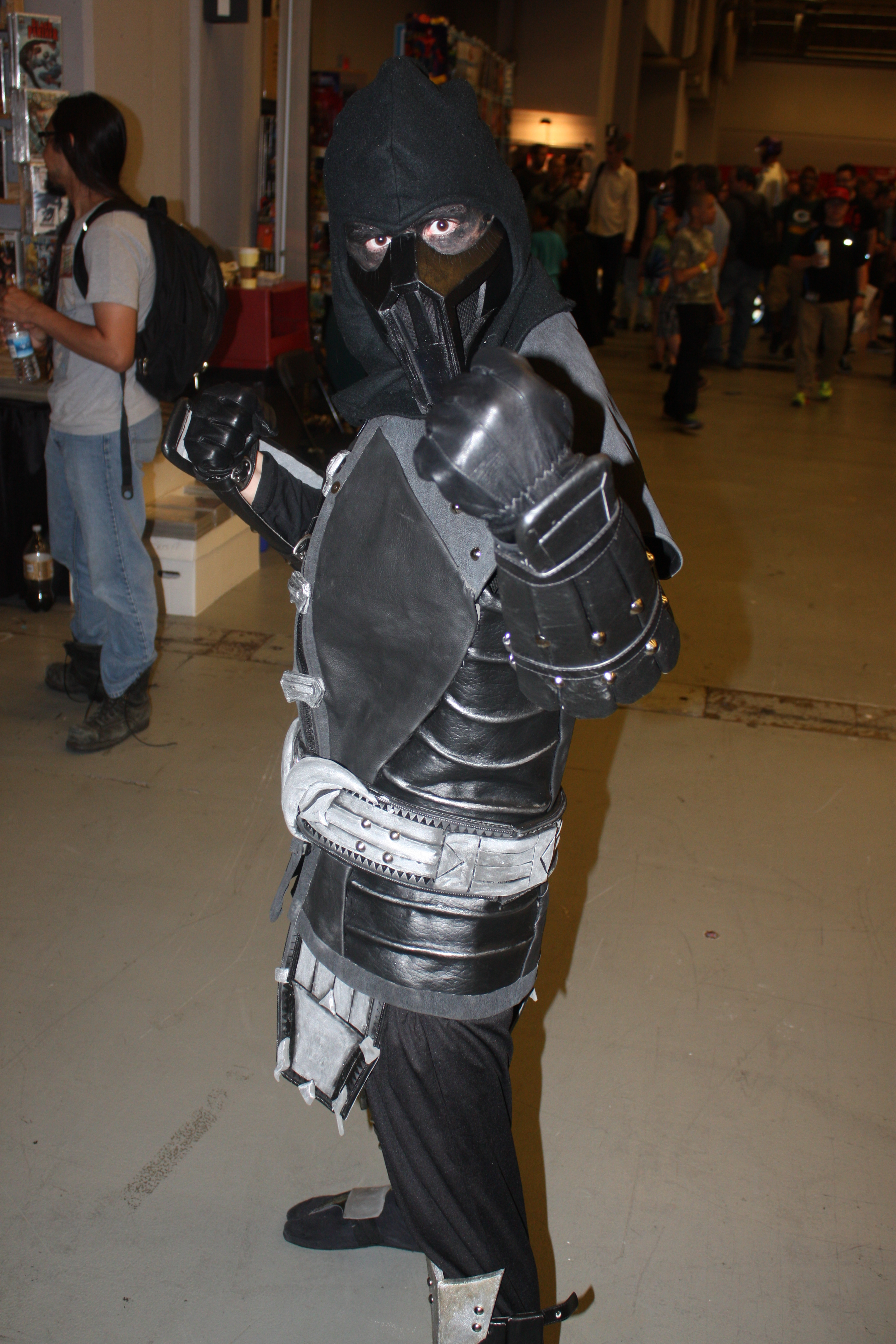 Cosplay on day three of Montreal Comiccon 2015.